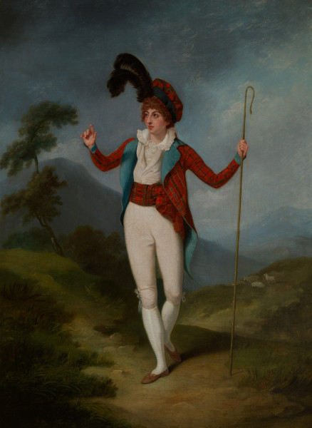 Maria Theresa Kemble by Samuel De Wilde c 1796